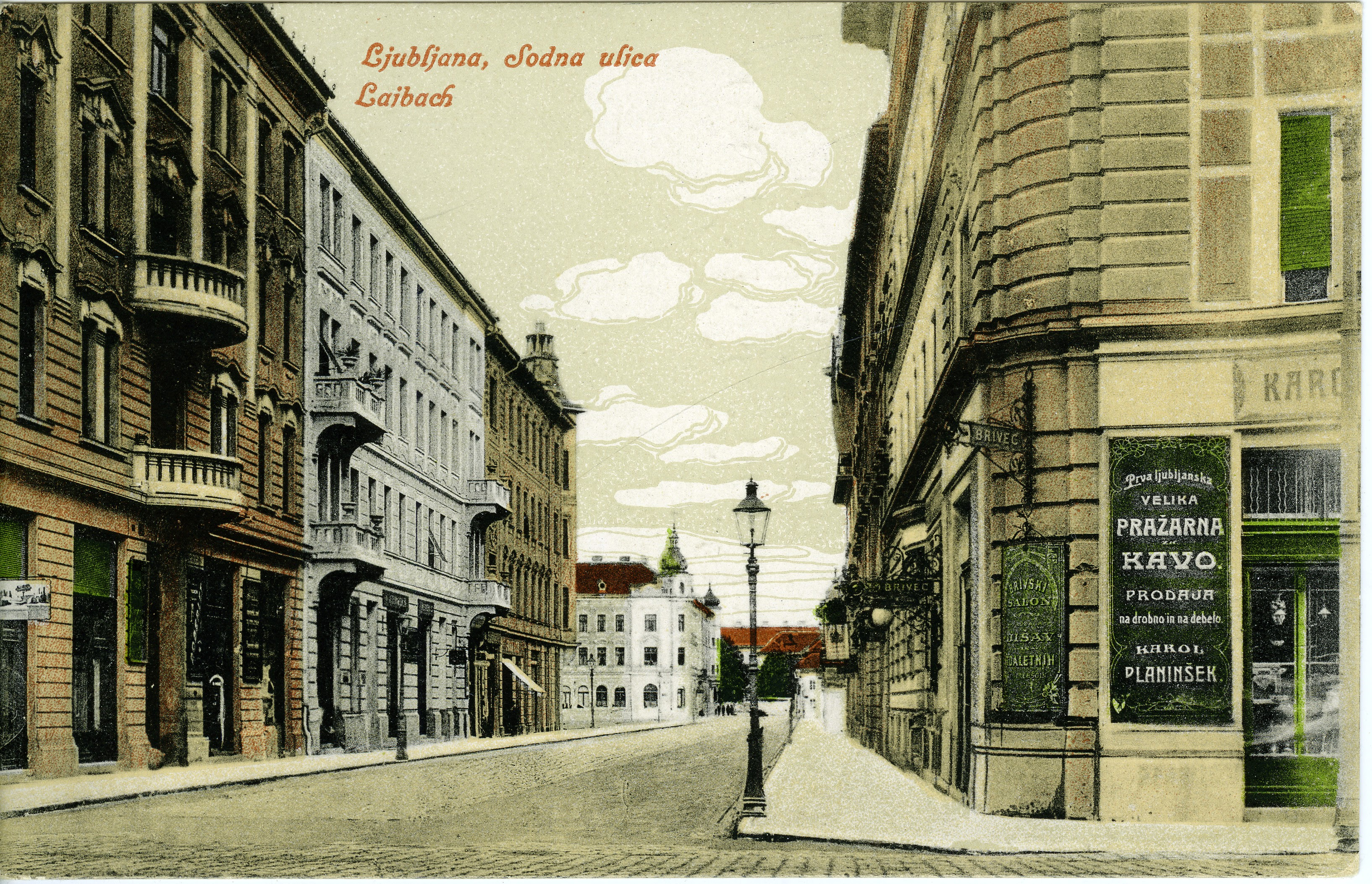 Postcard of Sodna ulica (now Tavčarjeva ulica).